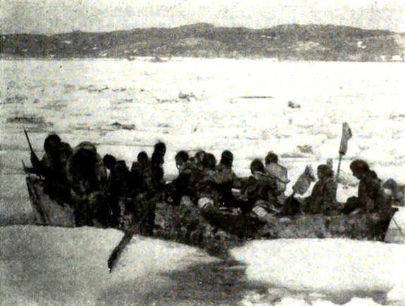 Still from the American film Nanook of the North (1922), from page 61 of the August 1922 Photoplay.